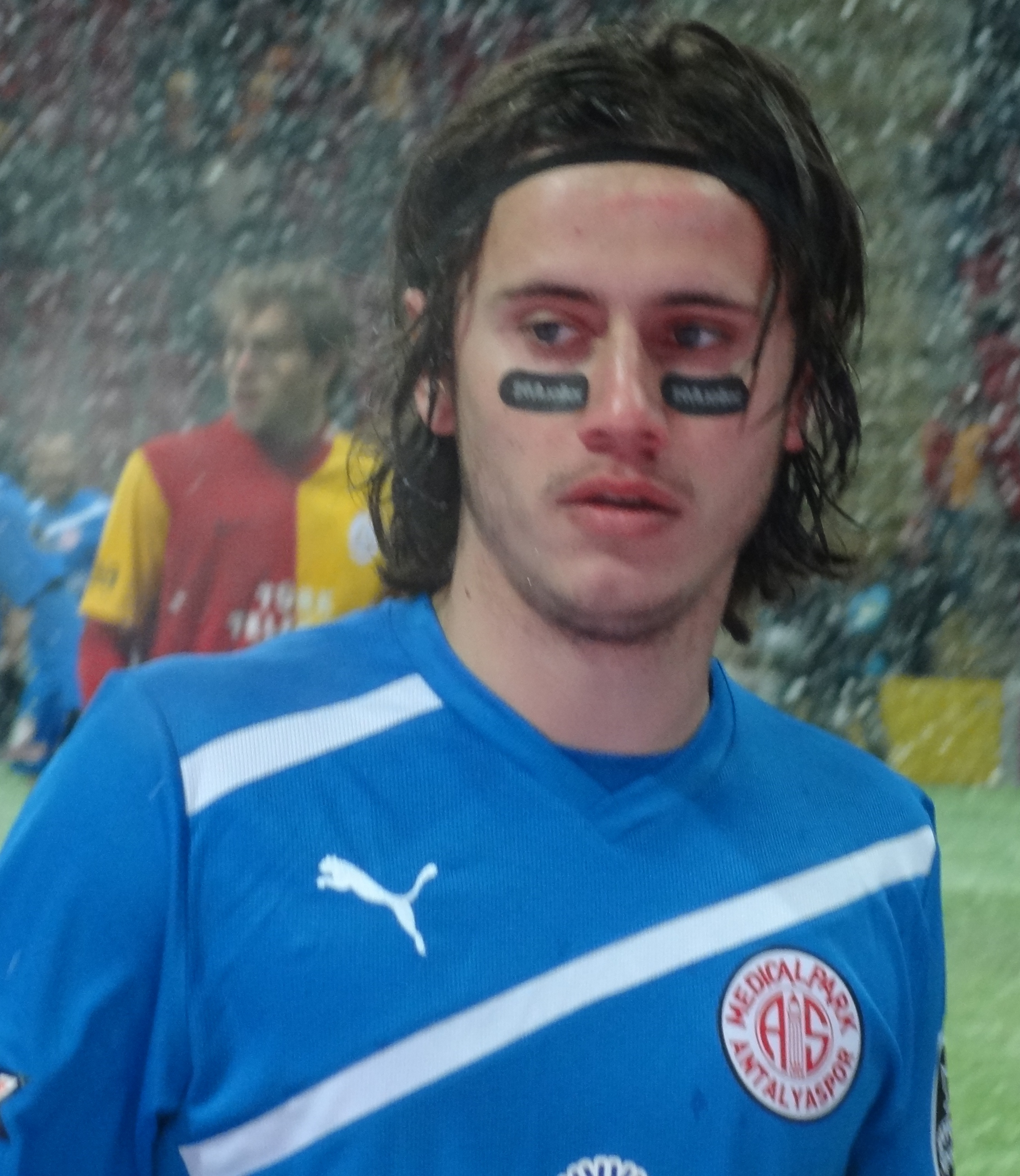 Musa Nizam